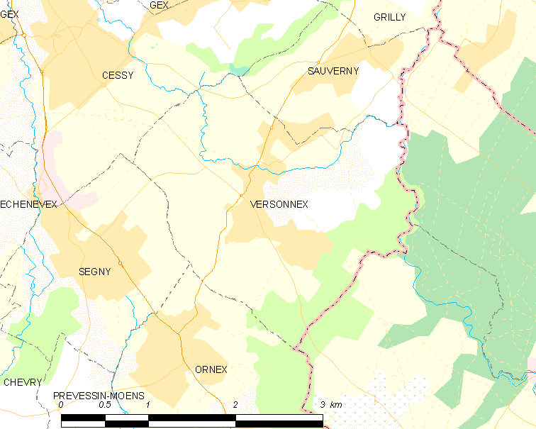 Map of French commune: Versonnex Map commune FR insee code 01435.png